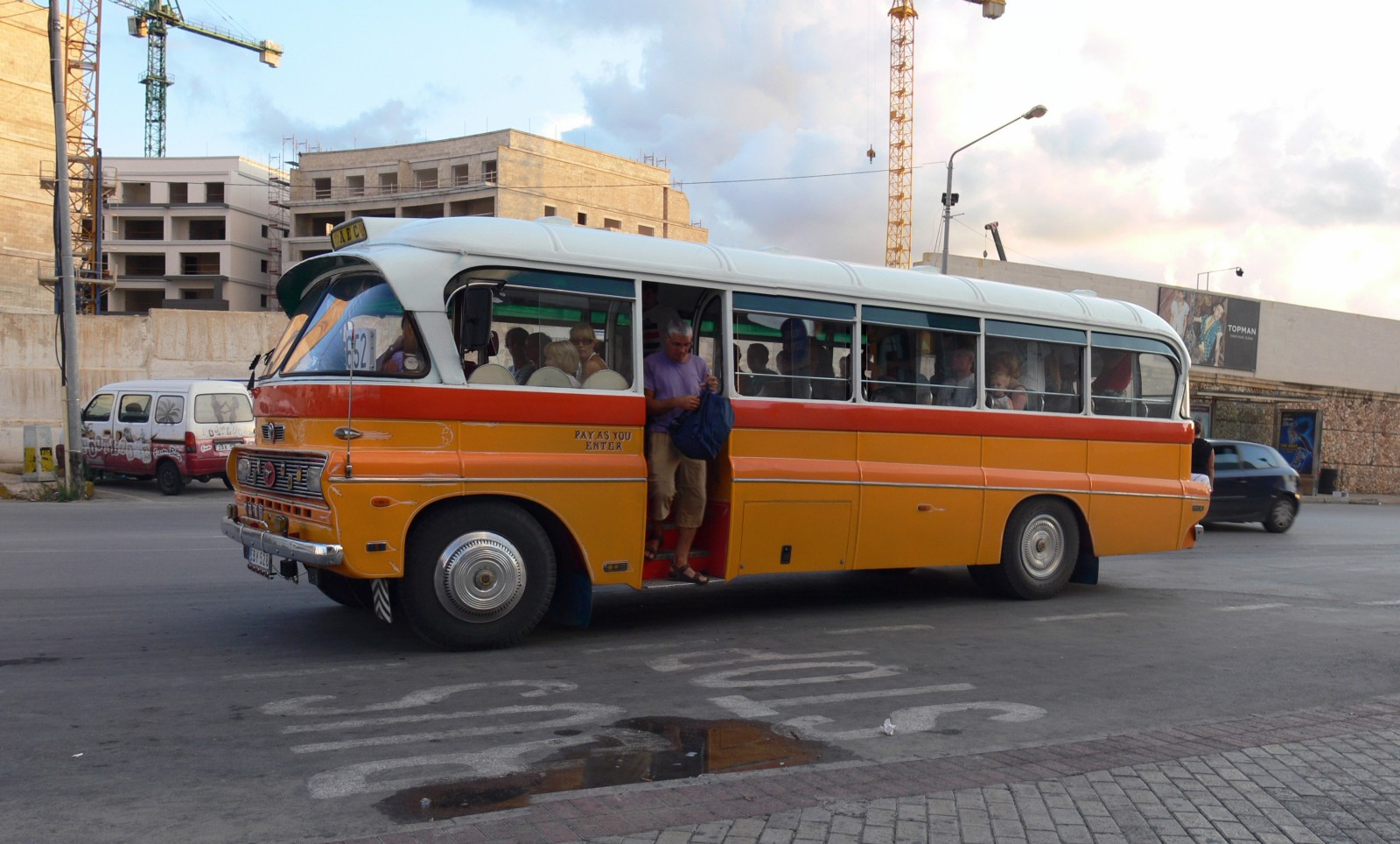 Autobus in Malta